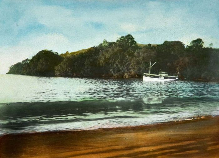 Beach and boat at Maurits Bay